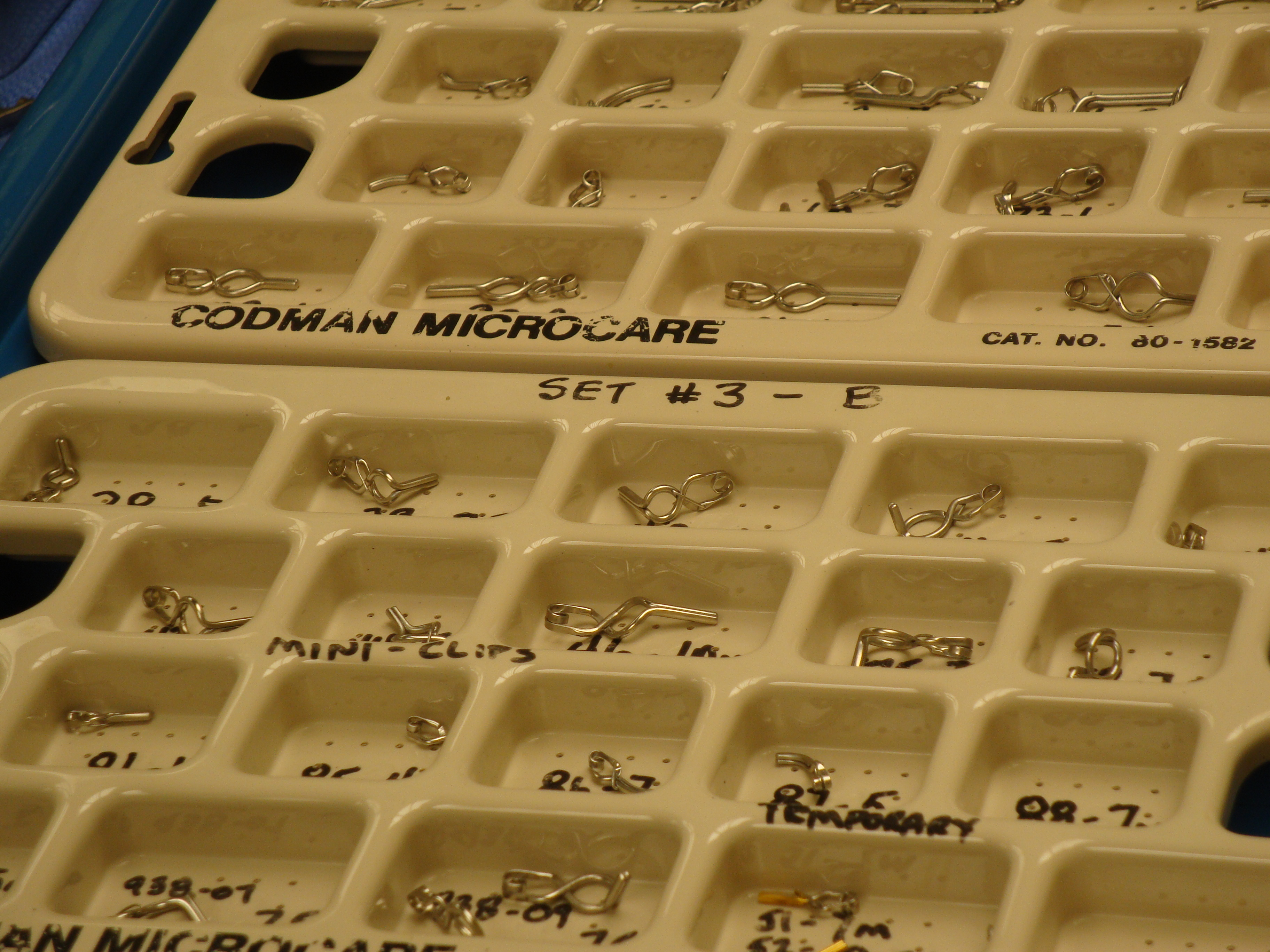 A set of sterilised aneurysm clips ready for selection and implantation .